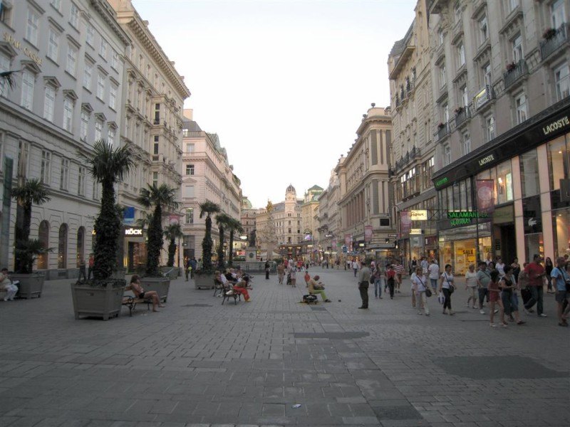 The Graben (pedestrianized central street of Vienna) at sunset.